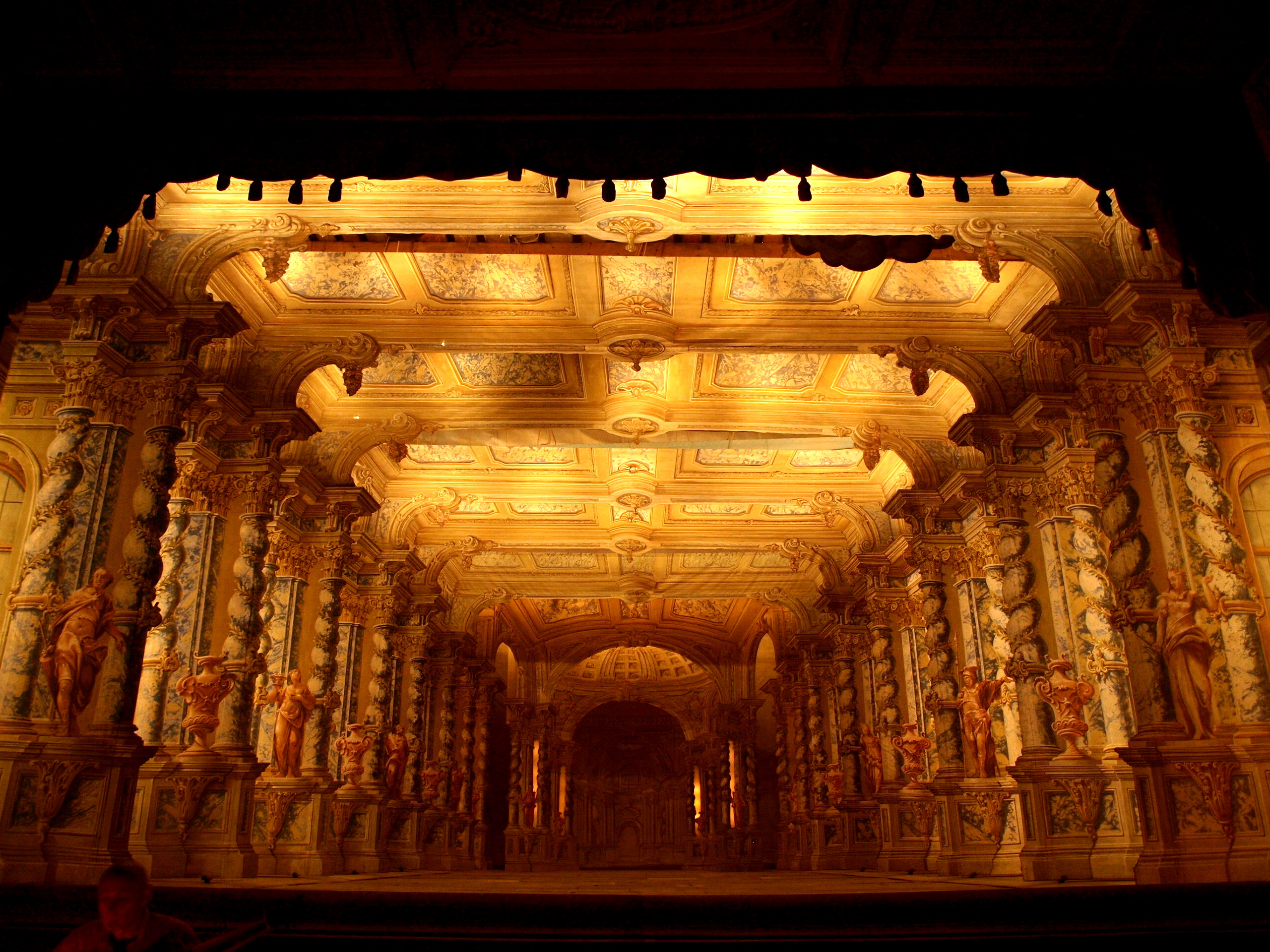 Stage of the Baroque Theatre in Český Krumlov, Czechia